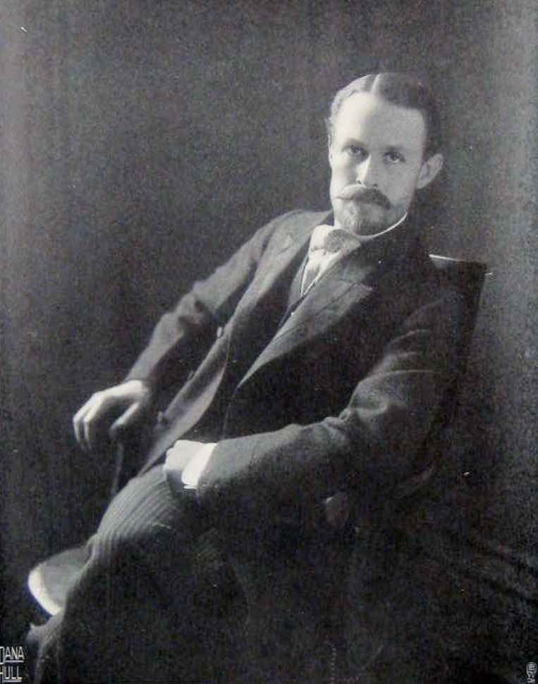 Photo by Dana Hull, published in The Burton Holmes Lectures vol. 1, 1905.